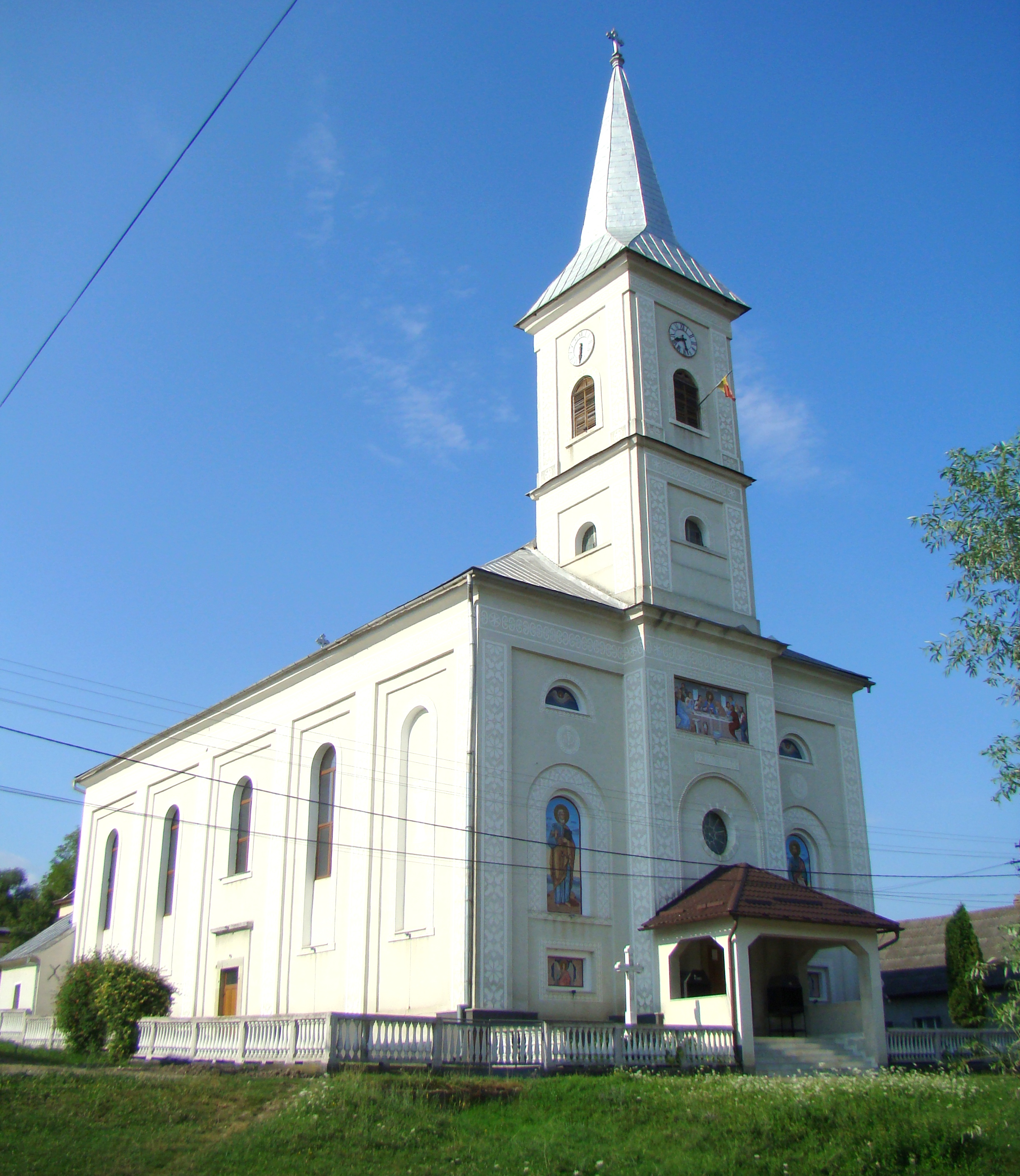 Former lutheran church in Satu Nou, Bistrița-Năsăud county, Romania